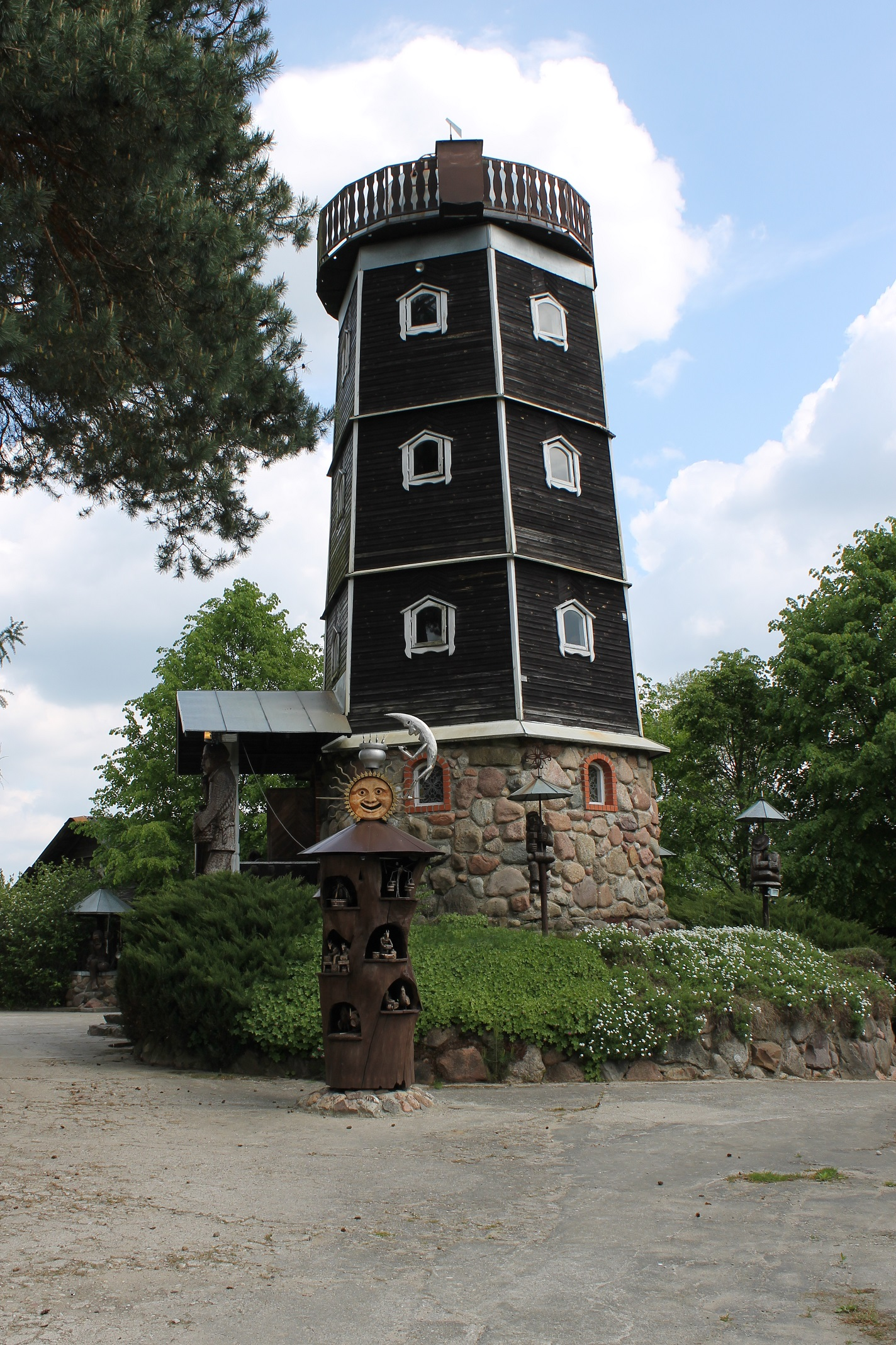 Naujasodė Village, Druskininkai Municipality, Lithuania